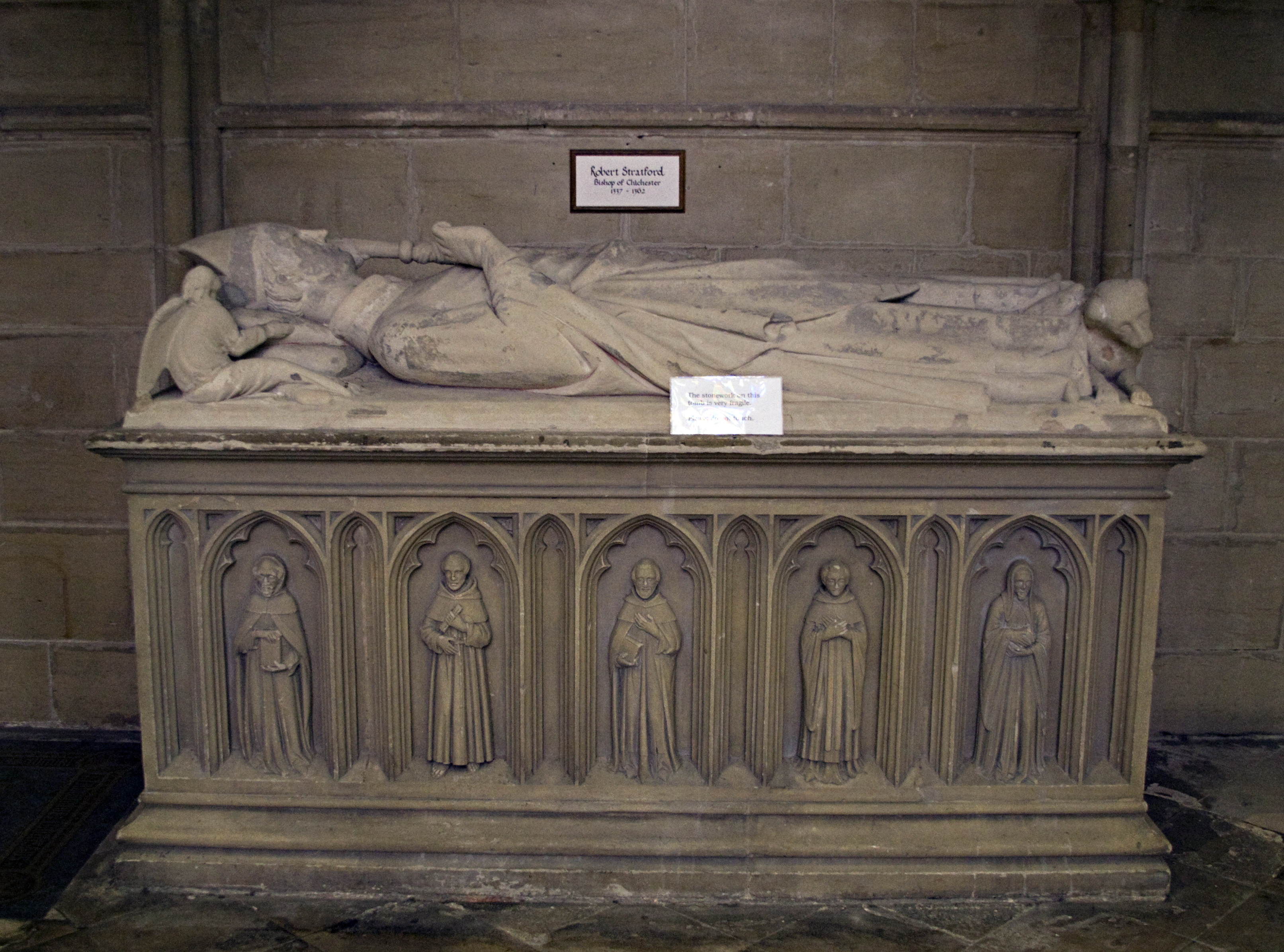 Tomb of Robert Stratford, Bishop of Chichester, from Chichester Cathedral